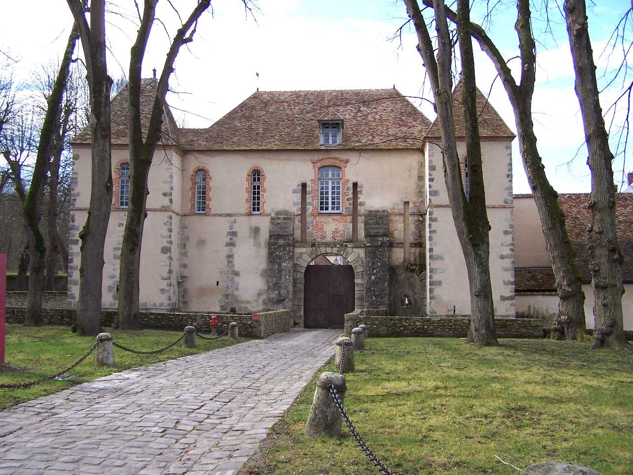 Castle of Les Mesnuls (Yvelines, France), postern